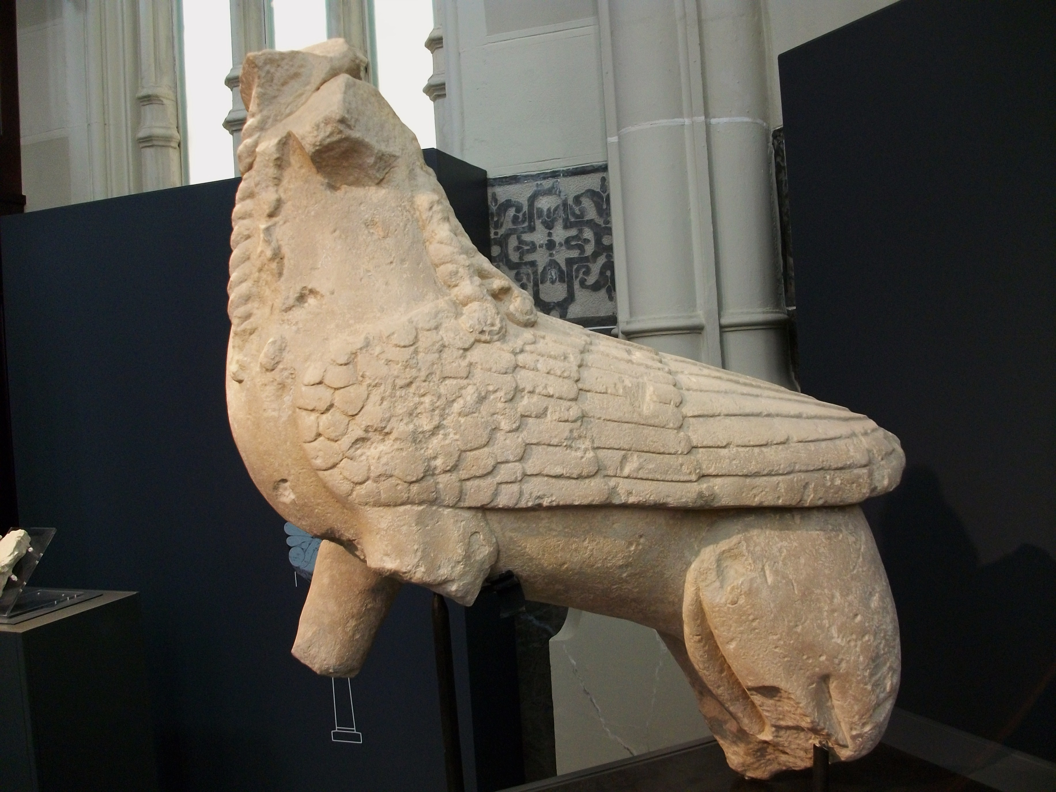 The so-called Sphinx of Agost. Iberian artwork from Agost (Alacantí, País Valencià), sculpted in limestone at the end of the 6th century BC (Iron Age II).